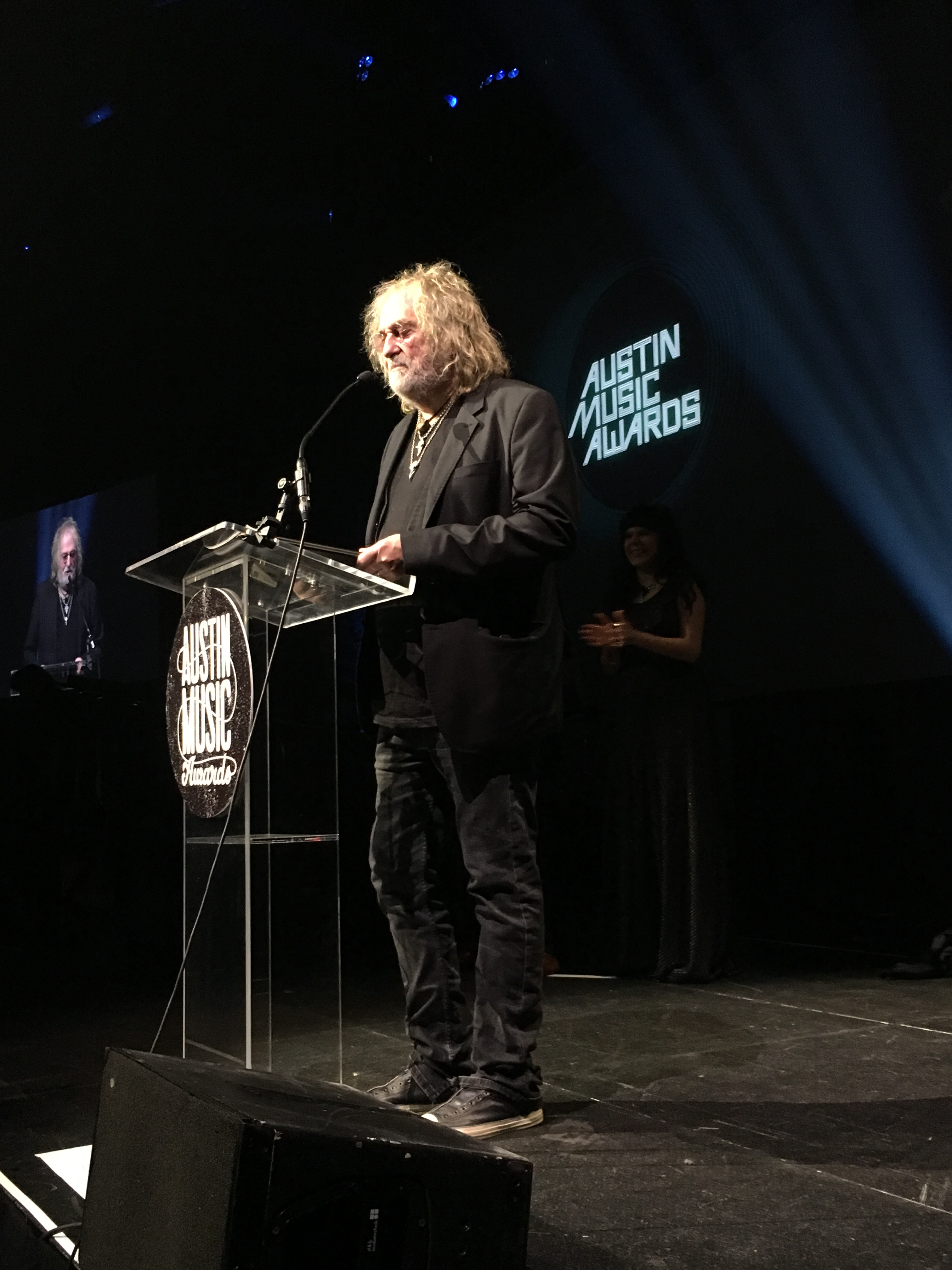 Ray Wylie Hubbard receiving the "Songwriter of the Year" award at the 2018 Austin Music Awards.